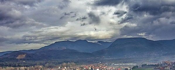 Niska Kotlina East